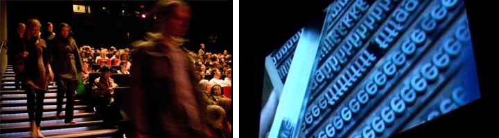 character number4 b